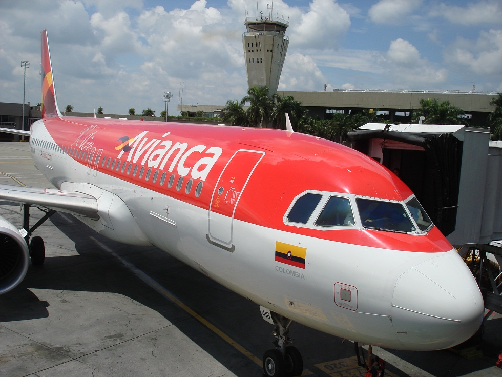 A320 en el Aeropuerto Alfonso Bonilla Aragón de Cali